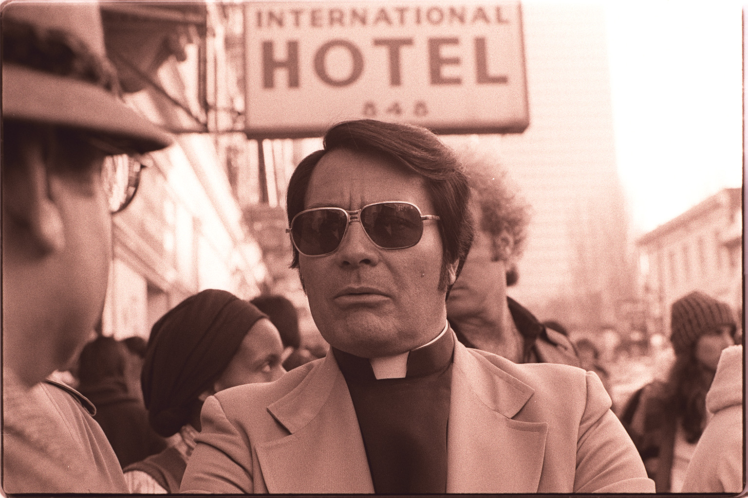 San Francisco Housing Commissioner Jim Jones at an anti-eviction rally at the I-Hotel at 848 Kearny Street in Manilatown, Sunday, January 16, 1977. Seen behind Jones is Tim Tupper (Jones' bodyguard and an adopted son) talking to Cheryl Wilhite (Peoples Temple security guard). Photograph by Nancy Wong